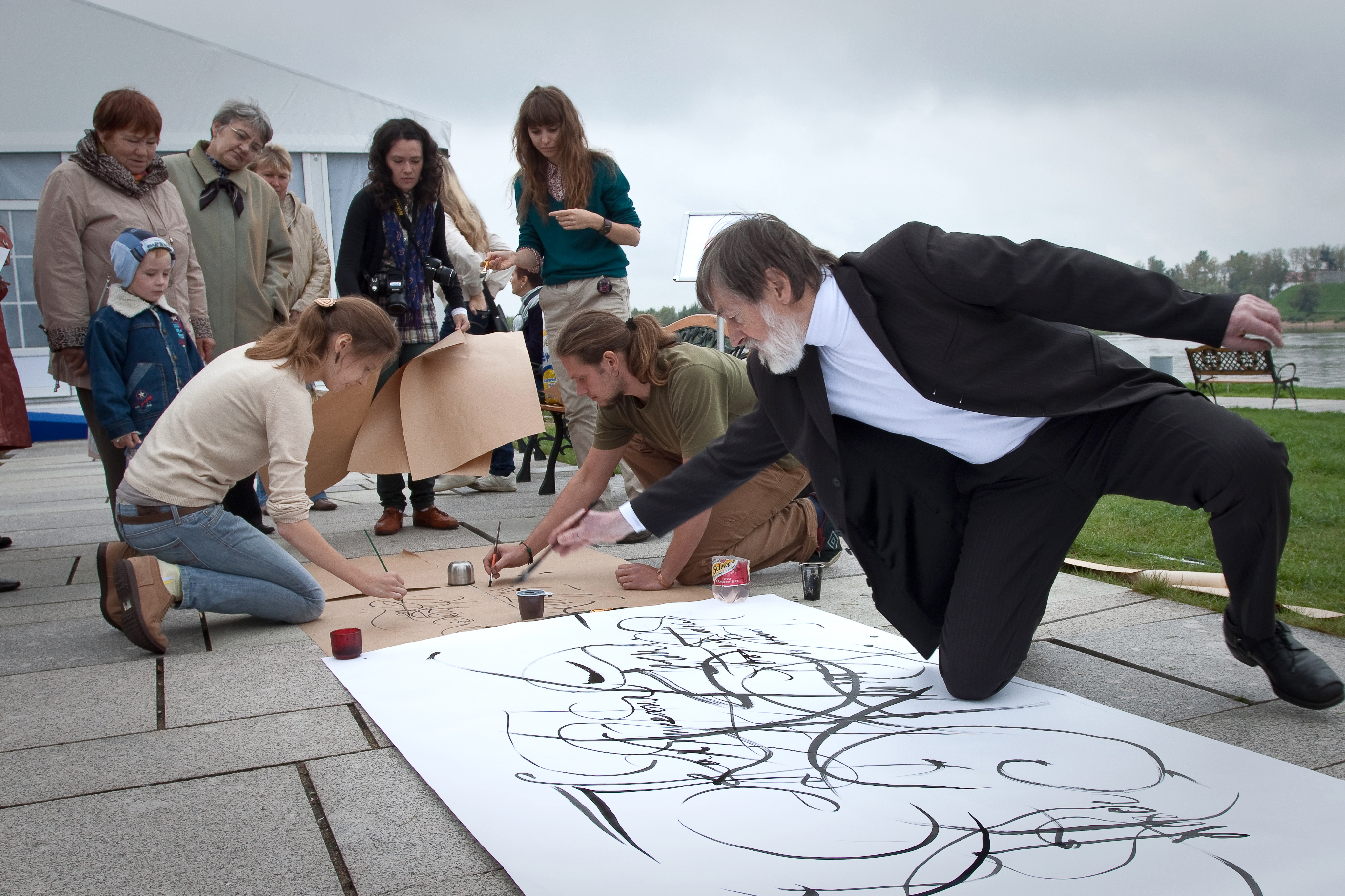 The photo is taken during the International exhibition of calligraphy in Velikiy Novgorod